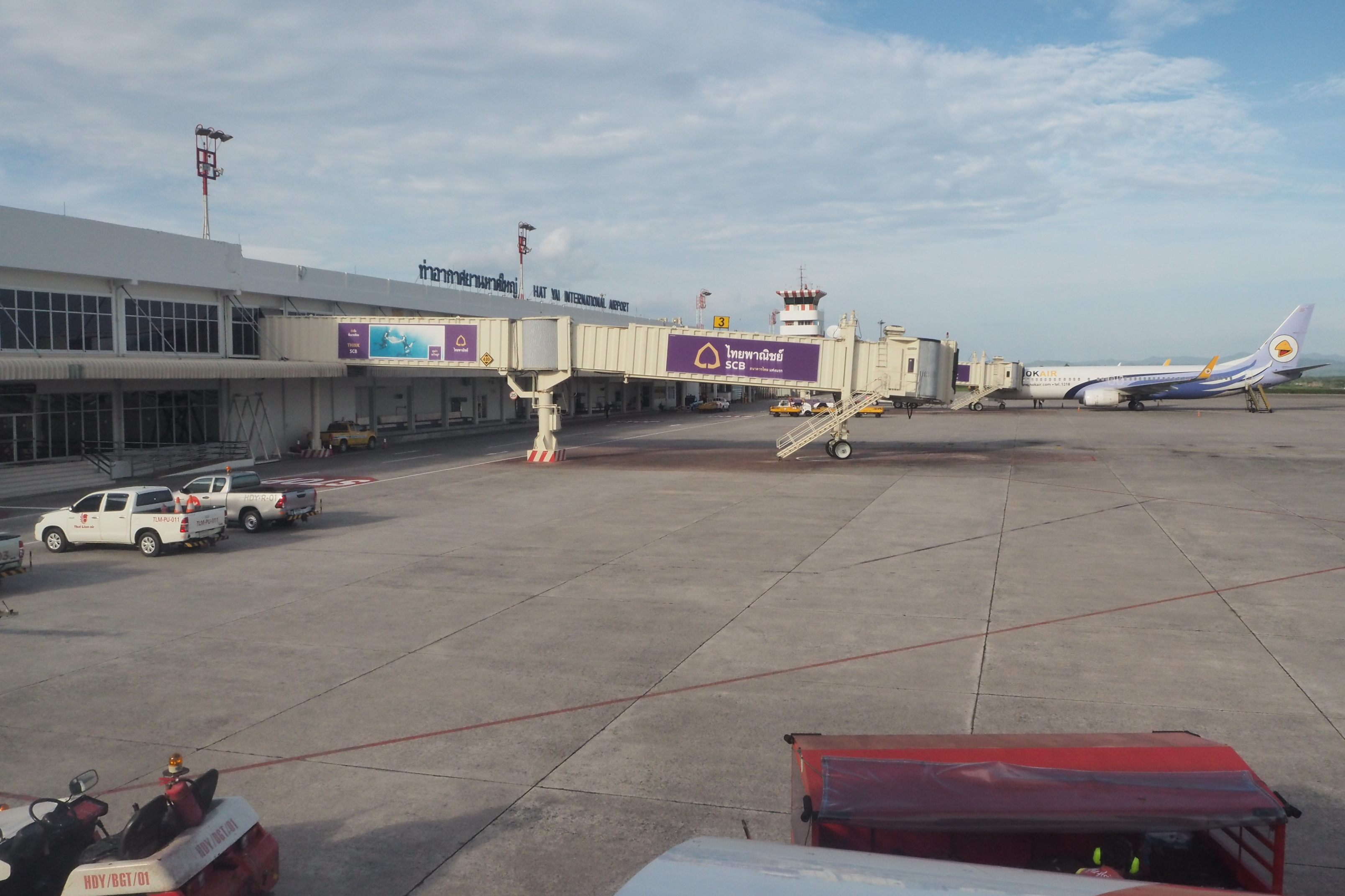 HDY parking